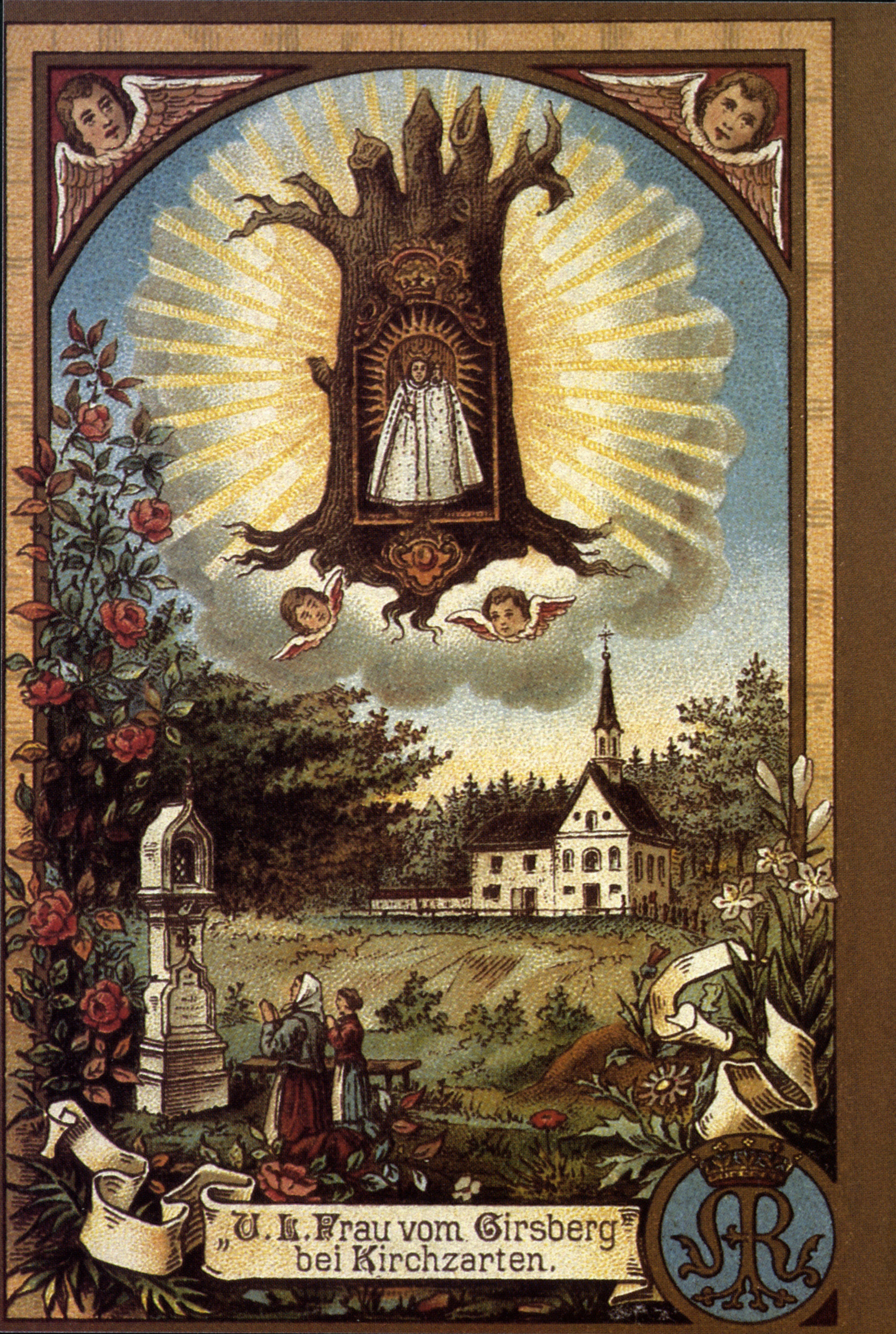 painting of Giersbergkapelle, Kirchzarten, Germany, of 1900